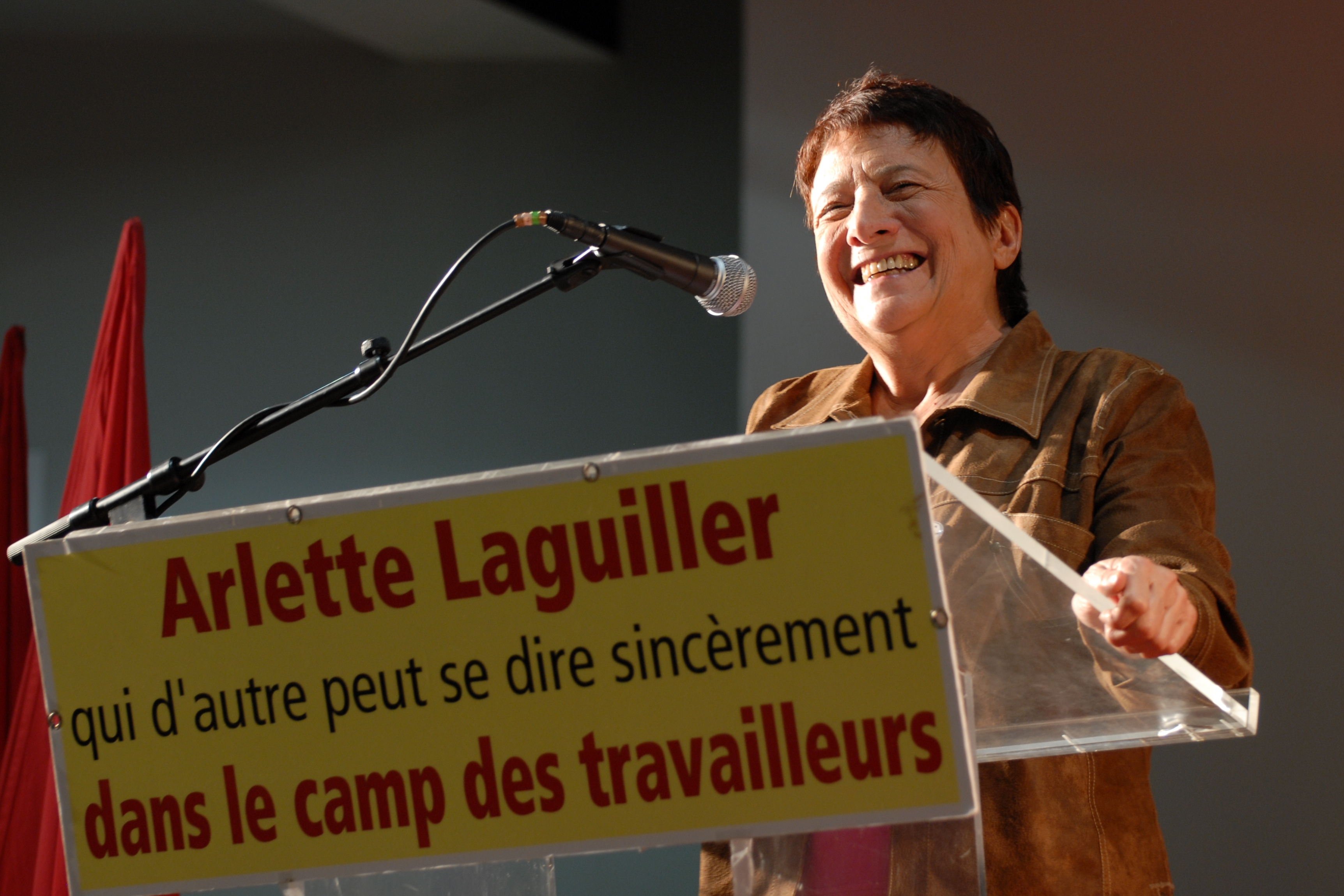 Arlette Laguiller during her meeting in Toulouse on April, 18th 2007 for the 2007 presidential election campaign.